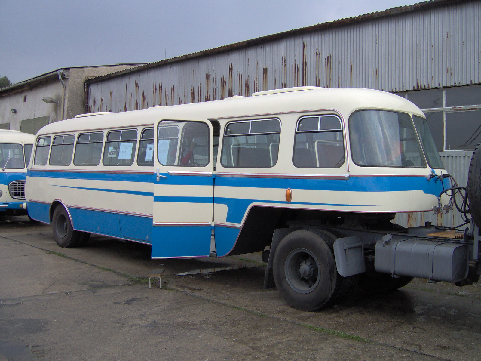 Historical Karosa NO 80 trailer bus in Brno. Trailer bus built 1958, ČSAP Nymburk operator.